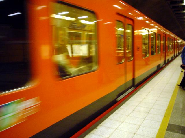 Helsinki Metro, a train